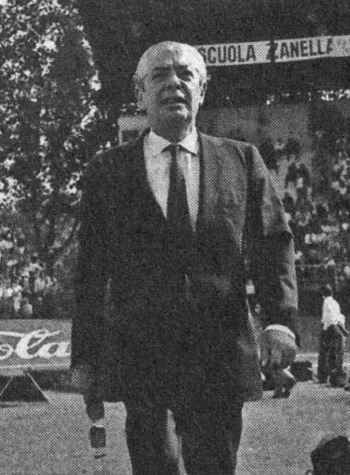 Mantua, Danilo Martelli Stadium, June 1, 1967. AC Mantova — Inter Milan 1-0, Italy Championship 1966–67 Serie A. From left to right: Inter Milan's chairman Angelo Moratti take to the ground.